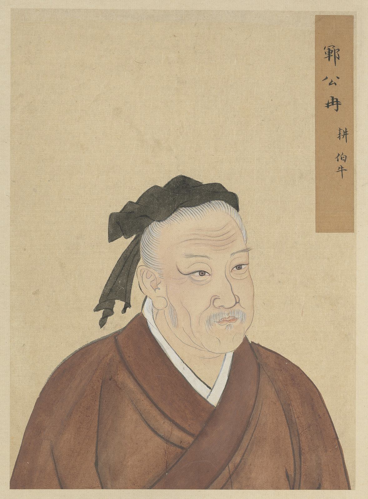 This depicts Ran Geng (冉耕), styled Boniu (伯牛).